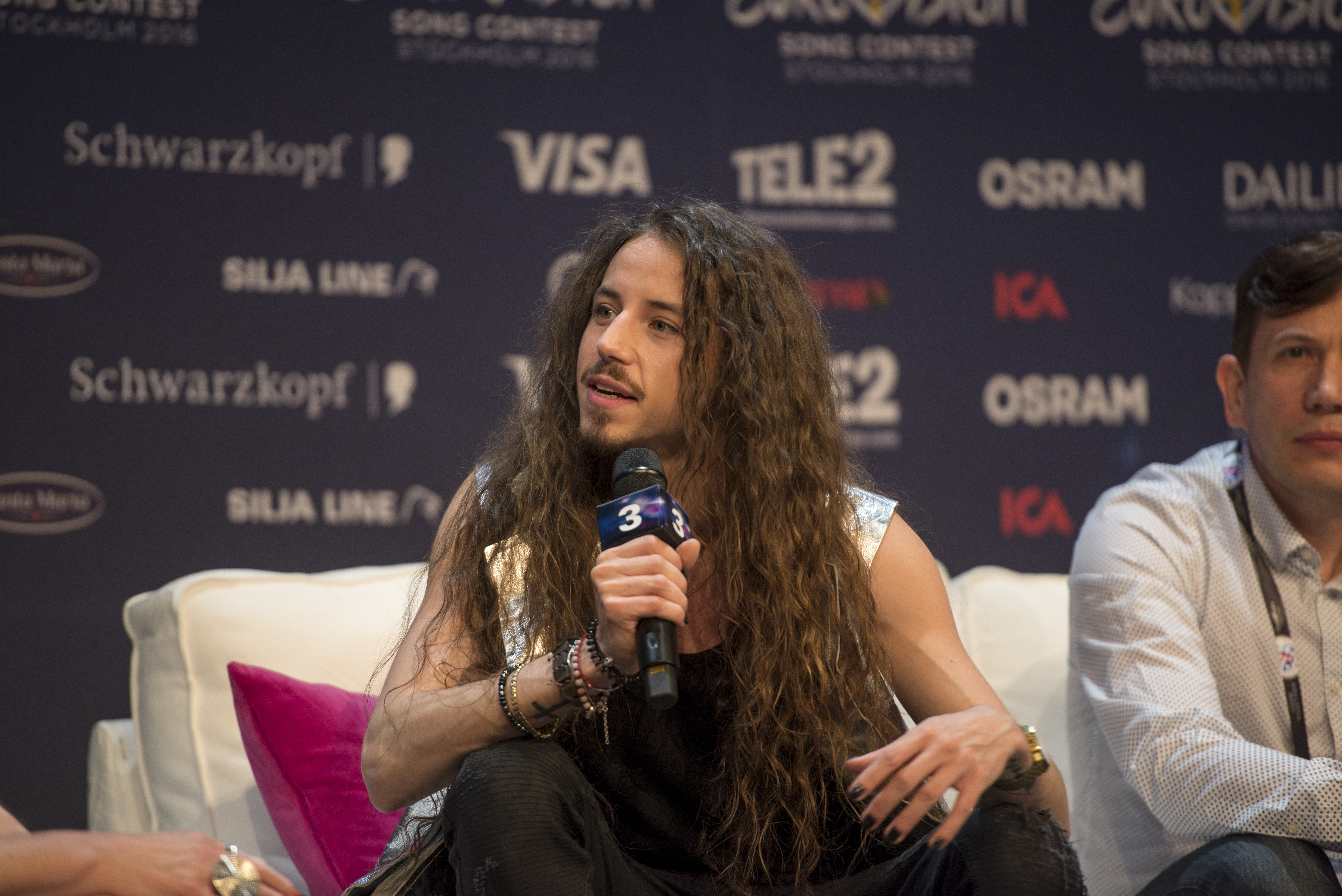 Michał Szpak at a Meet & Greet during the Eurovision Song Contest 2016 in Stockholm. (Help translate this text)